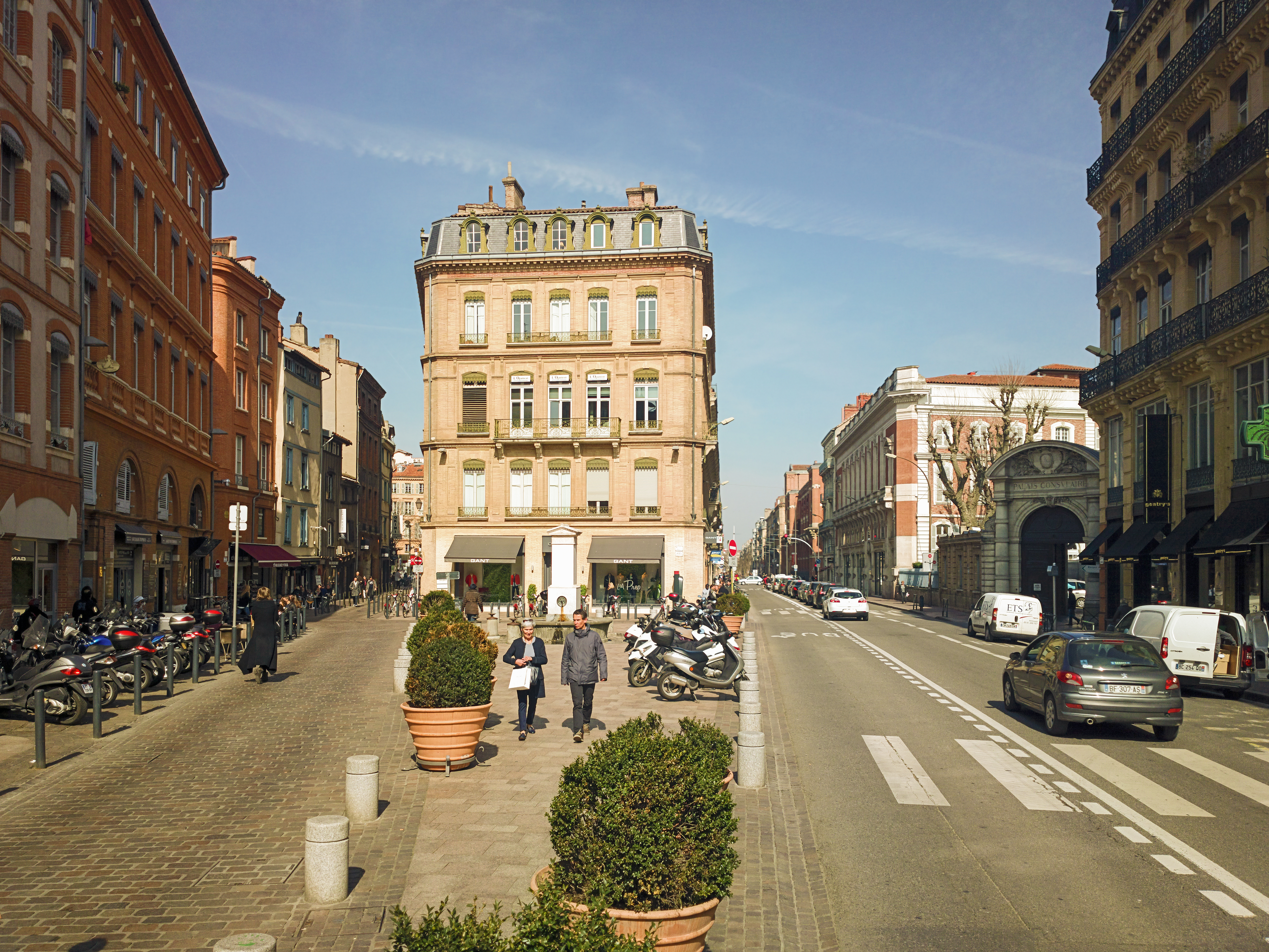 Place Rouaix in Toulouse